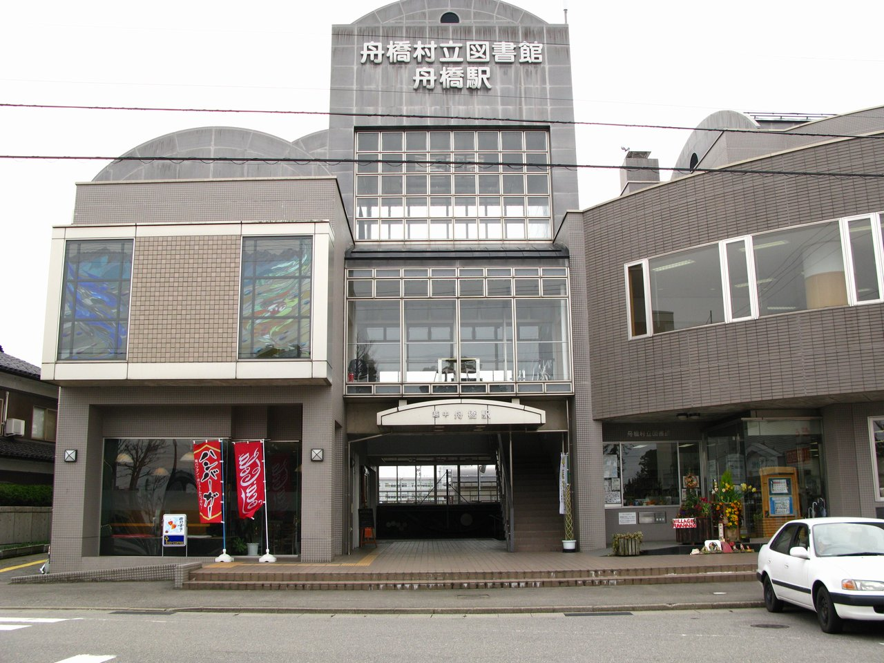 Etchu-Funahashi Station